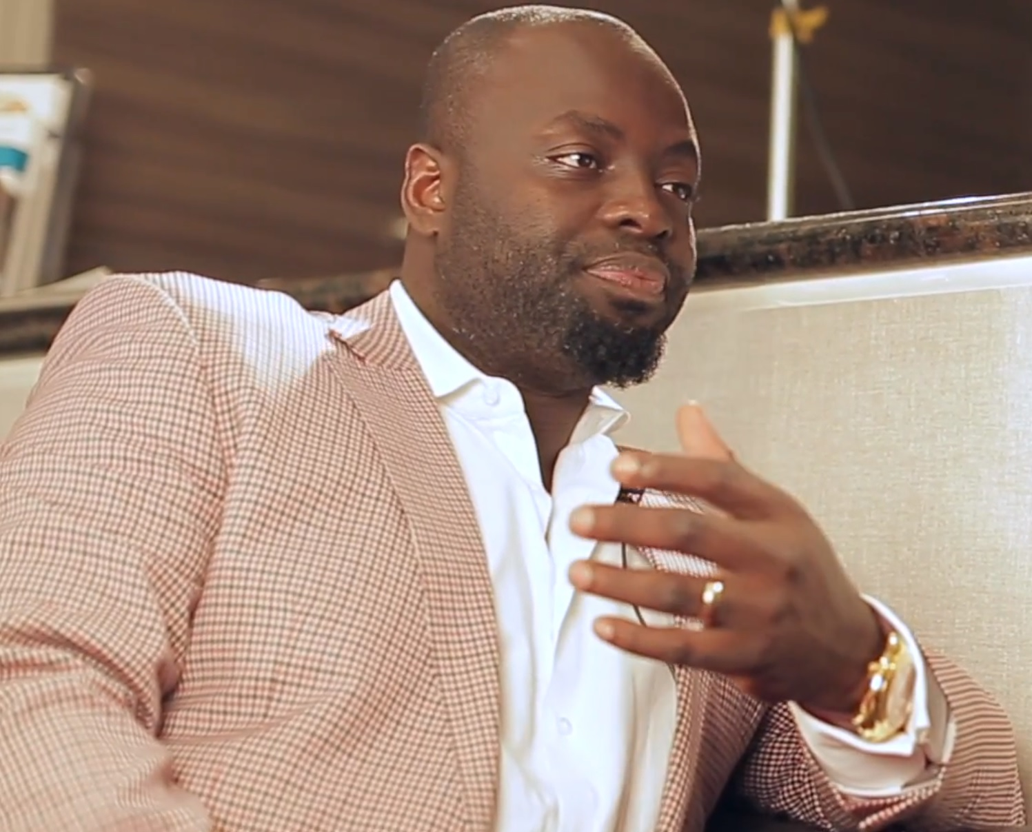 BREAKING:I left Ghana for America with NOTHING -DR. MICHAEL.K.OBENG Doctor Michael Obeng was born in Africa and arrived the U.S because he persevered to chasing his Dreams. With no financial backing, he soldiered on. Today he is described as one of America's top plastic surgeon and the the only black surgeon in the Beverly Hills medical triangle in Beverly Hills California